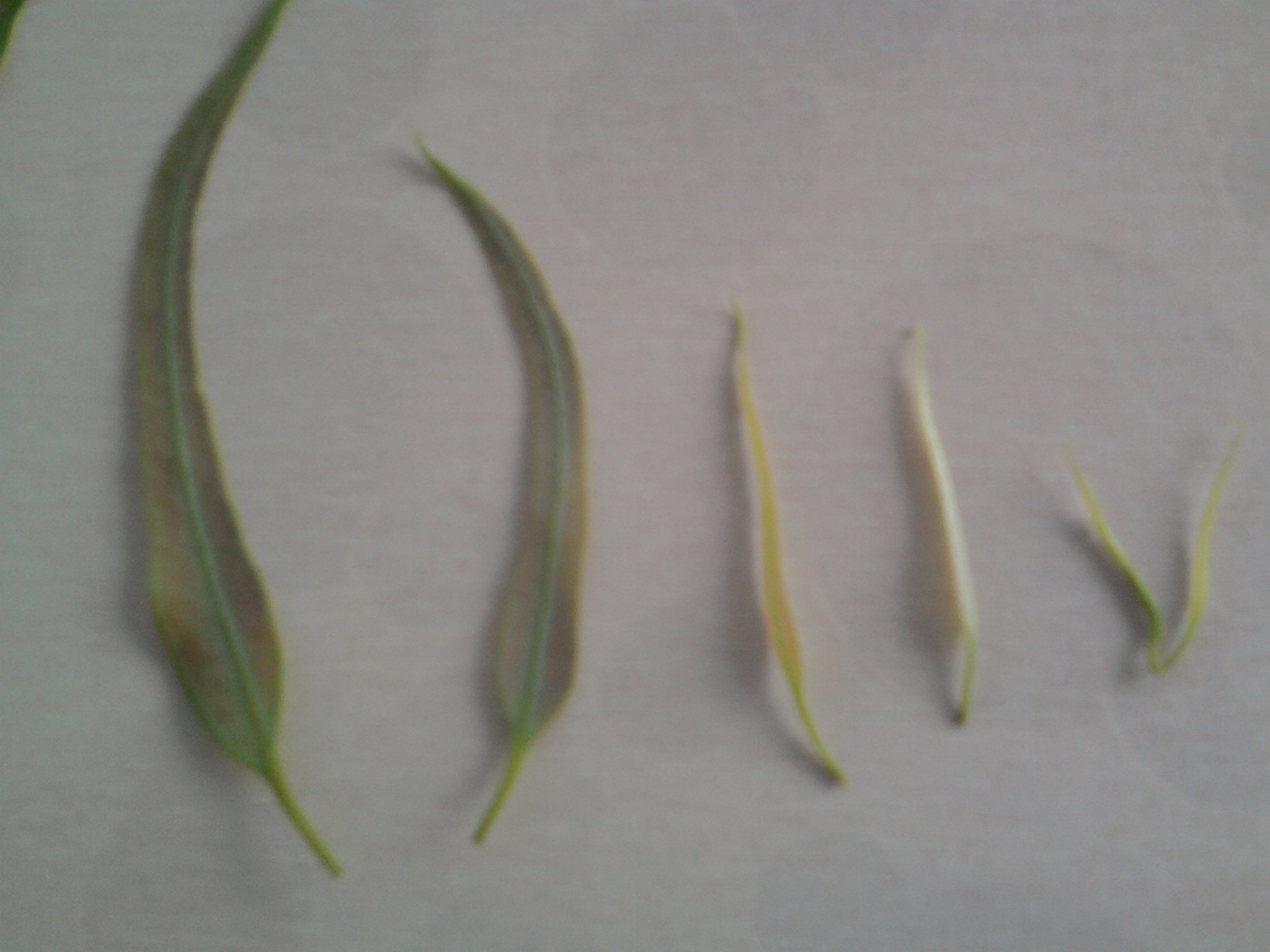 Eucalyptus Leafs